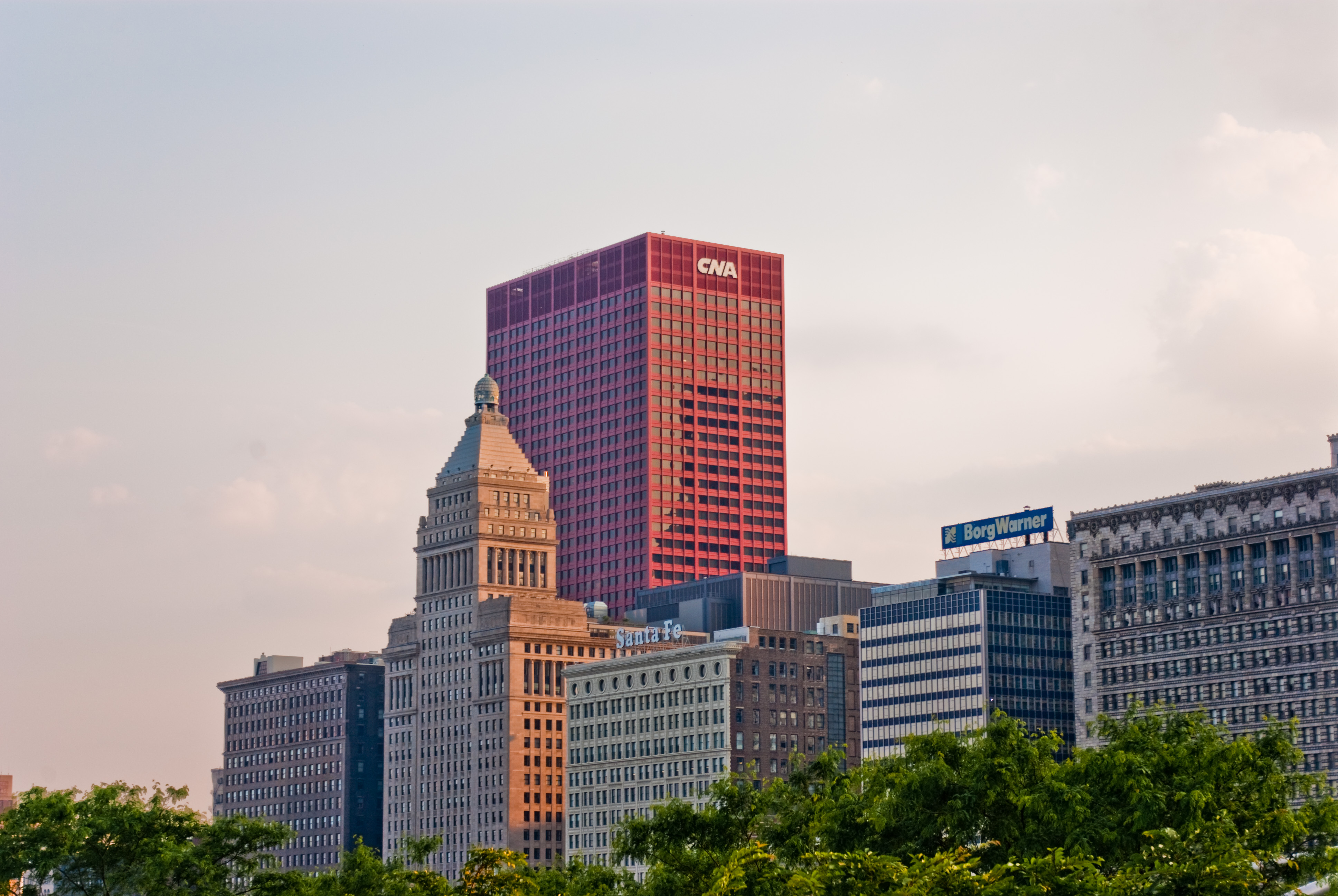 CNA Center